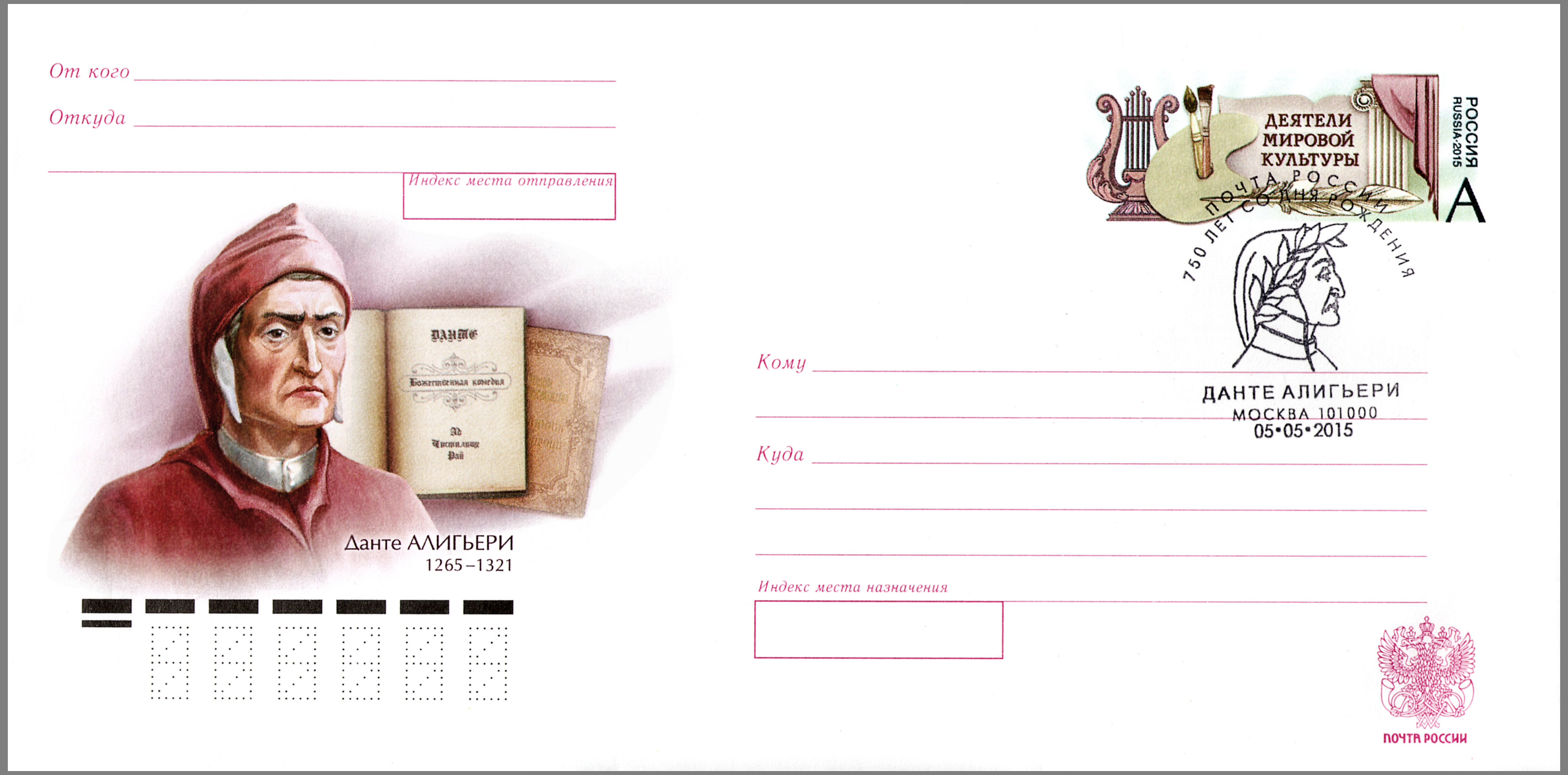 Figures of the World Culture (an ongoing series of postal stationery envelopes). The 750th birth anniversary of Dante Alighieri (1265—1321), an Italian poet, the author of The Divine Comedy. The illustrated postal stationery envelope with commemorative stamp, Russia, 5 May 2015. PTC Marka Catalogue No 271. Envelope paper VBM (ВБМ) with watermarks “ПОЧТА РОССИИ”. Offset printing. Size of the envelope: 110×220 mm. Print run: 1,000,000. The non-denominated stamp of the ongoing series with symbols of arts (“Letter A”, for domestic letters, weight 20 g or less). The illustration: the portrait of Dante Alighieri; Russian translations of books by Dante Alighieri. Pictorial cancellation: Moscow, 5 May 2015, Catalogue of PTC Marka No 2015/160-ш.